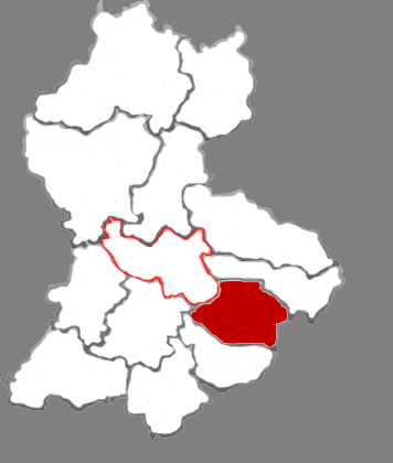 Location of Fenyang county-думуд сшен in Lüliang City, China